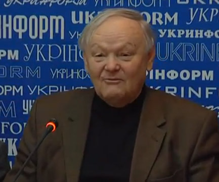 Borys Oliynyk, Ukrainian poet, translator, politician, Hero of Ukraine